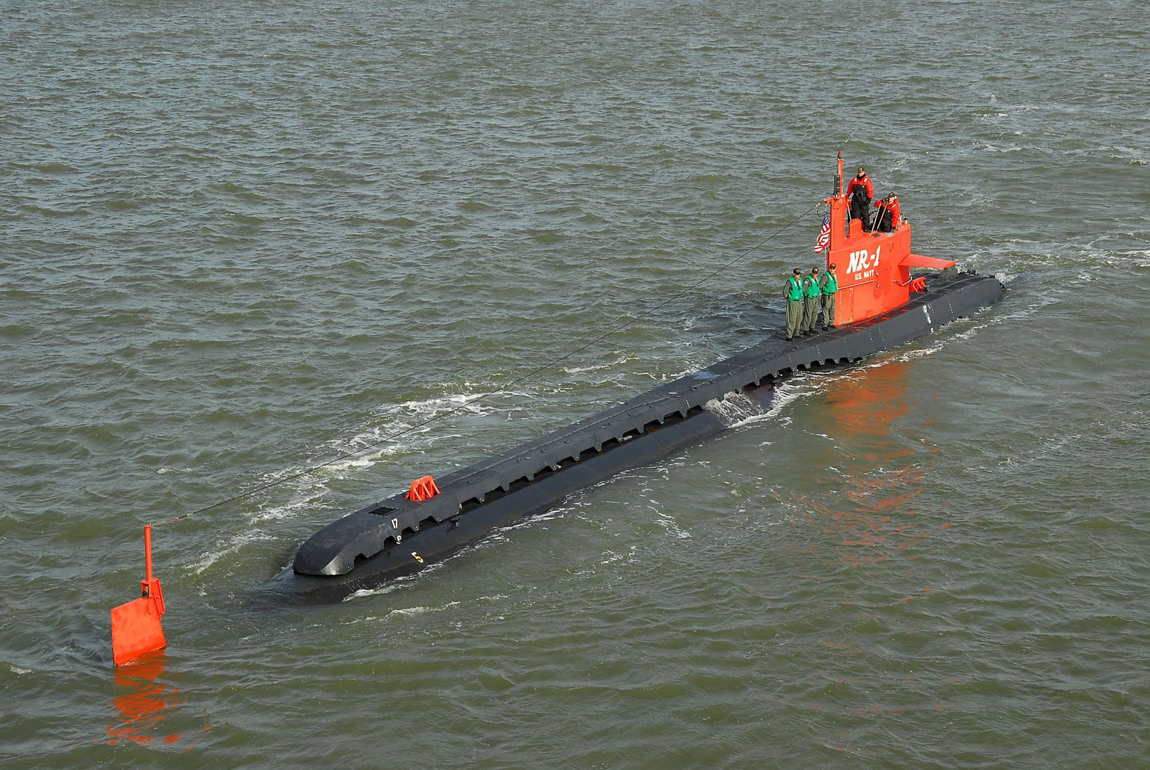 The nuclear research submarine NR-1 and it's crew arrive in Galveston, Texas, Feb. 25, 2007, in preparations for Operation Flower Garden Banks Expedition 2007. NR-1 will conduct a visual and acoustic survey of the Flower Garden Banks in the Gulf of Mexico. (U.S. Navy photo by Mass Communication Specialist 1st Class John Fields) (Released) Date Posted: Location: GALVESTON